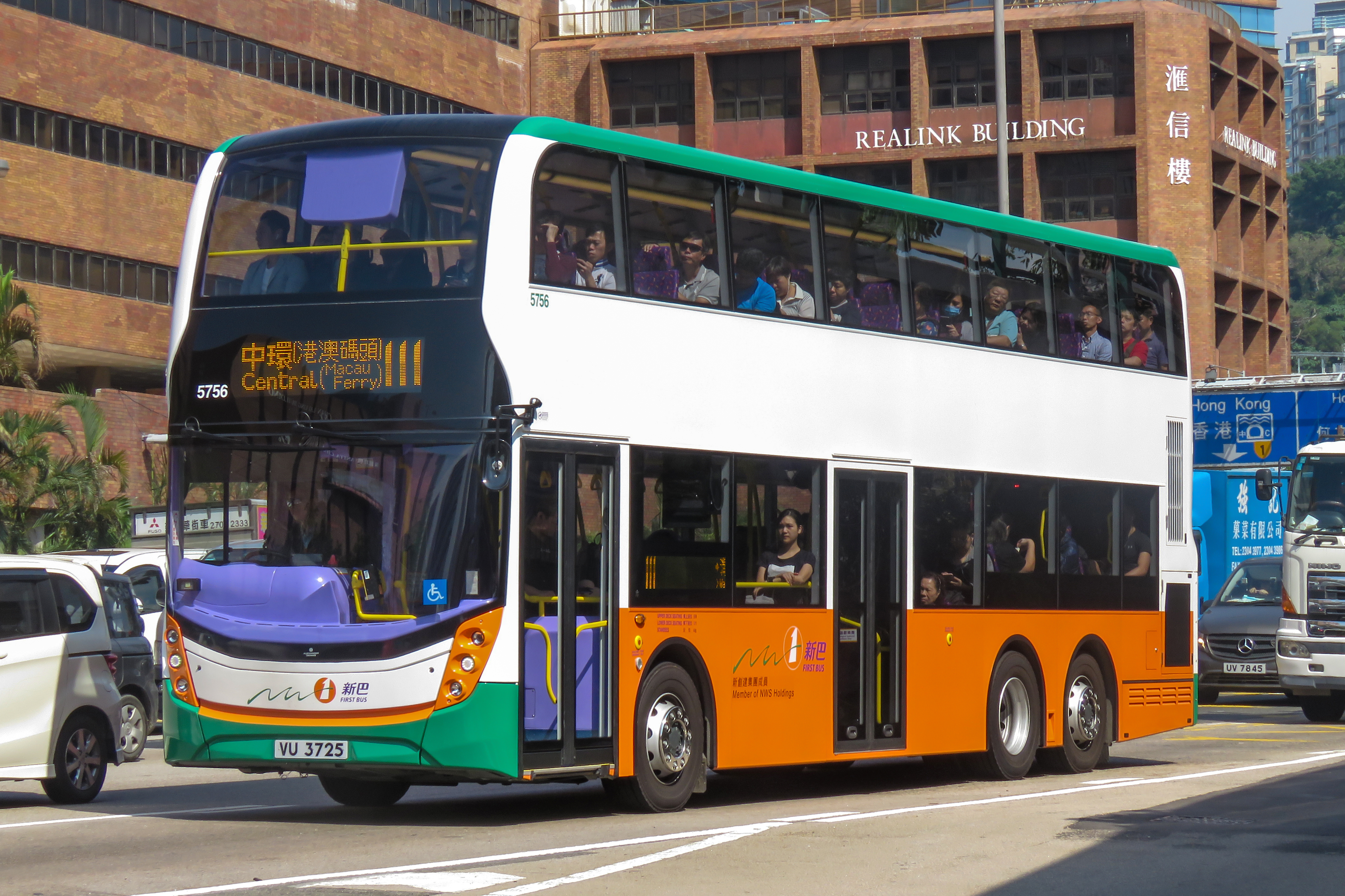 Began to feel the 12m variant a bit short after the spread of 12.8m E500MMCs. 5750-5829 and 6198-6209 use Cummins L9E6C340B engines.